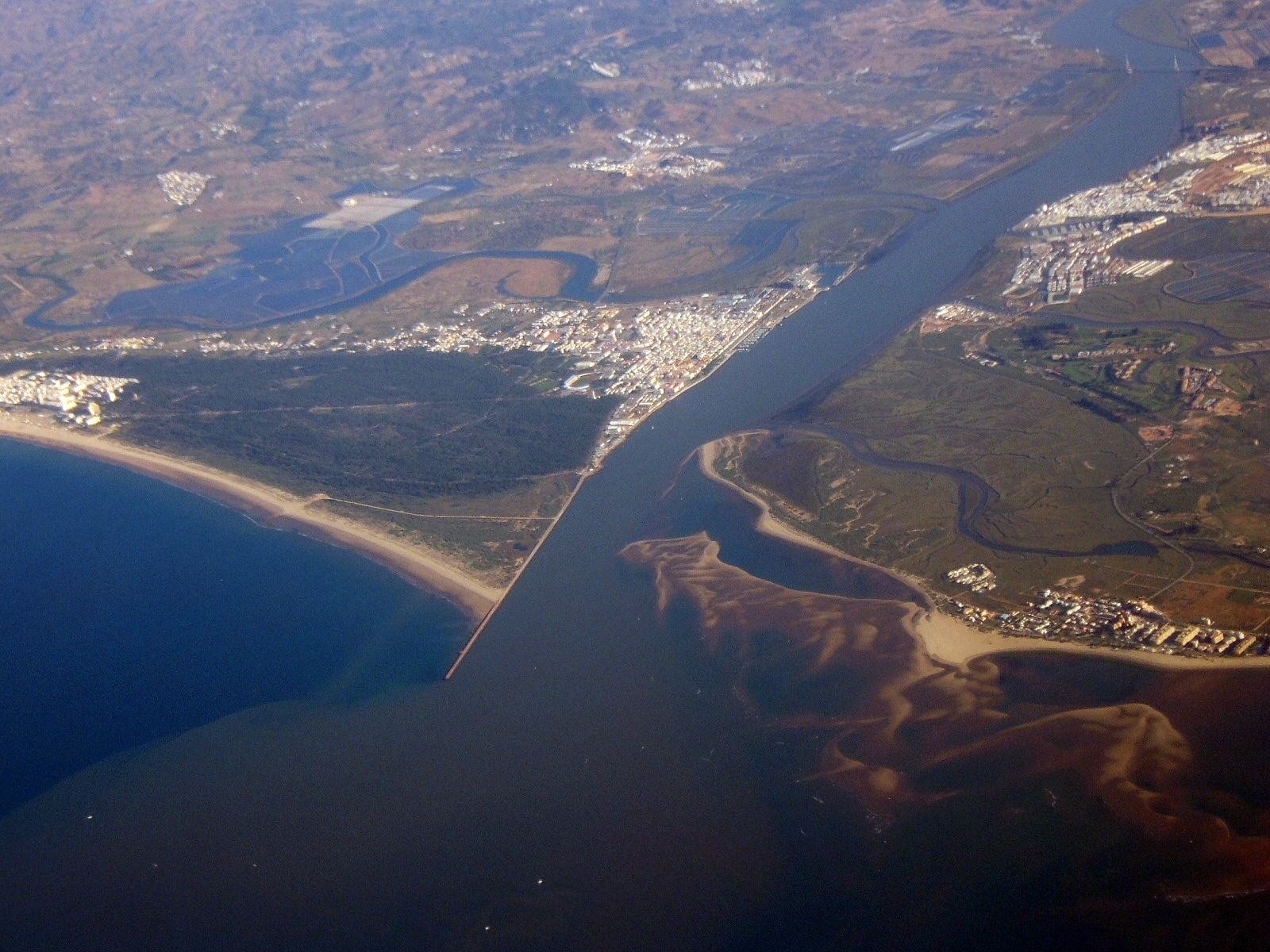 Aerial view of the mouth of the Guadiana (Español), Guadiana (Português), Guadiana (English) river flowing into the Atlantic Ocean. Portugal is on the left side of the image; Spain on the right side. The Portuguese town in the center of the image is Vila Real de Santo António, the Spanish town further north is Ayamonte. The small Spanish village at the sea is Isla Canela, the Portuguese coastal village on the very left is Monte Gordo. The village north of Monte Gordo is Três Azeitonas and the village north of Vila Real is Castro Marim, further north, Monte Francisco can be seen. At extreme top right, the Puente Internacional cable-stayed bridge can be seen.